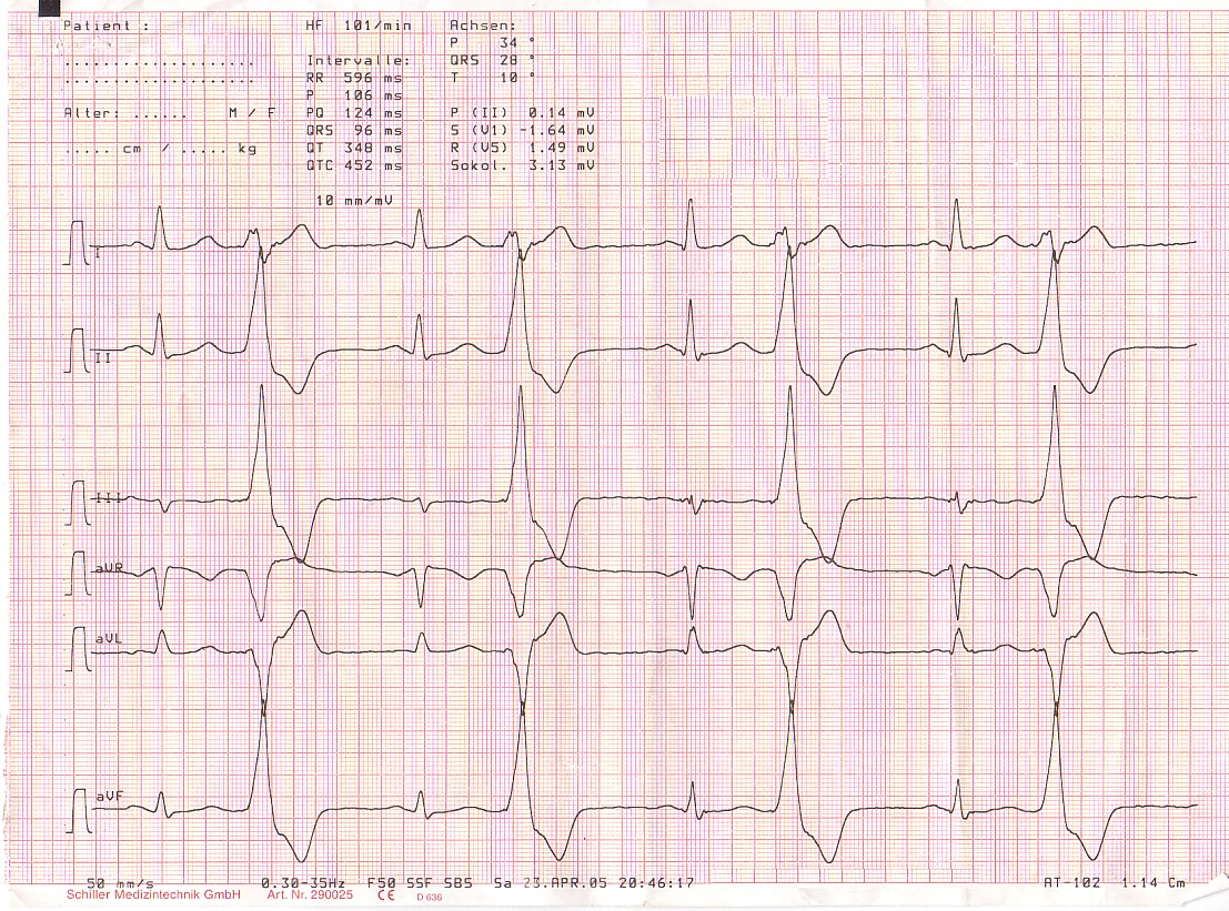 A 6 channel ECG with ventricular bigeminus.